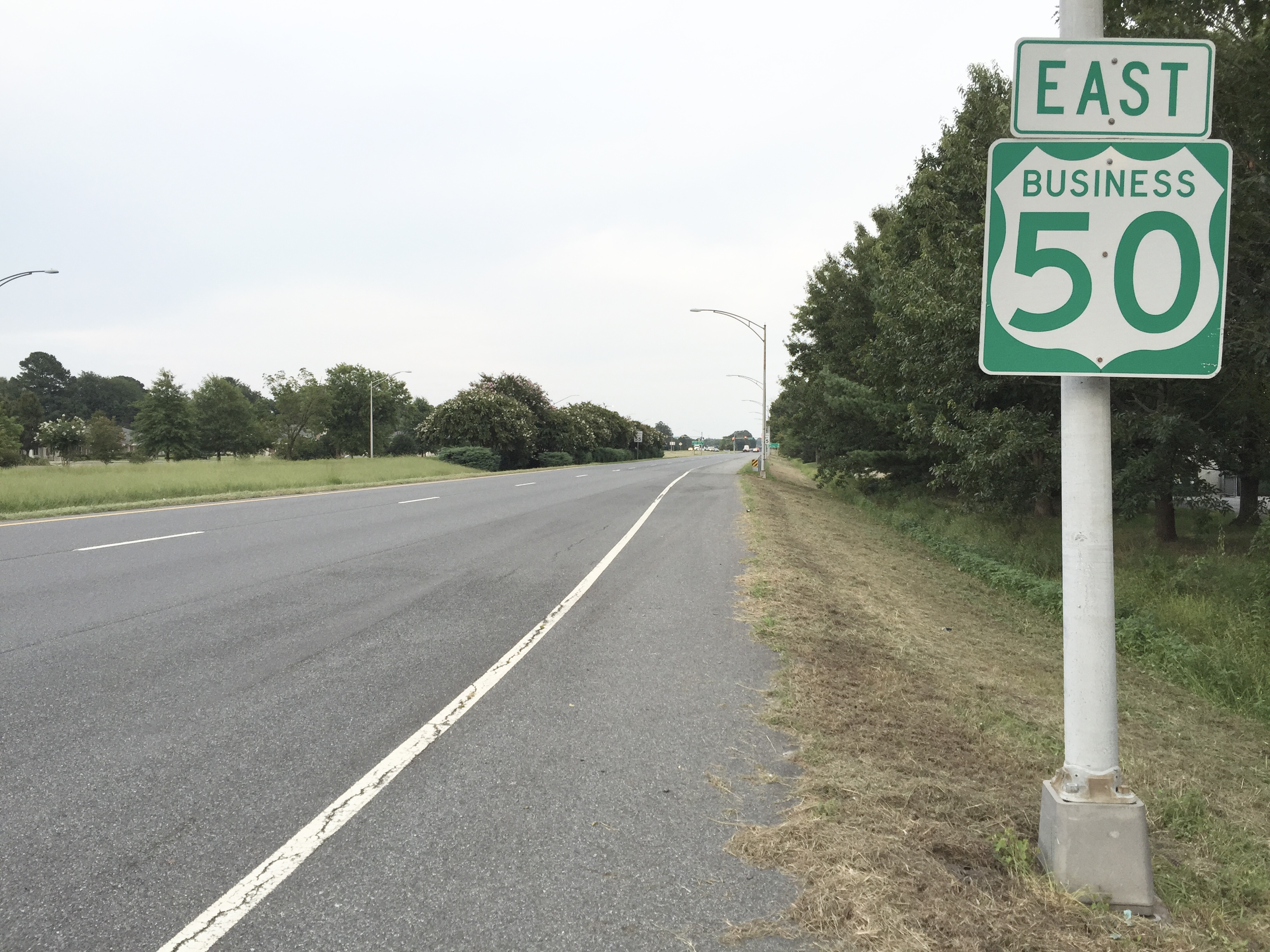 View east along U.S. Route 50 Business (Ocean Gateway) at Civic Avenue in Salisbury, Wicomico County, Maryland